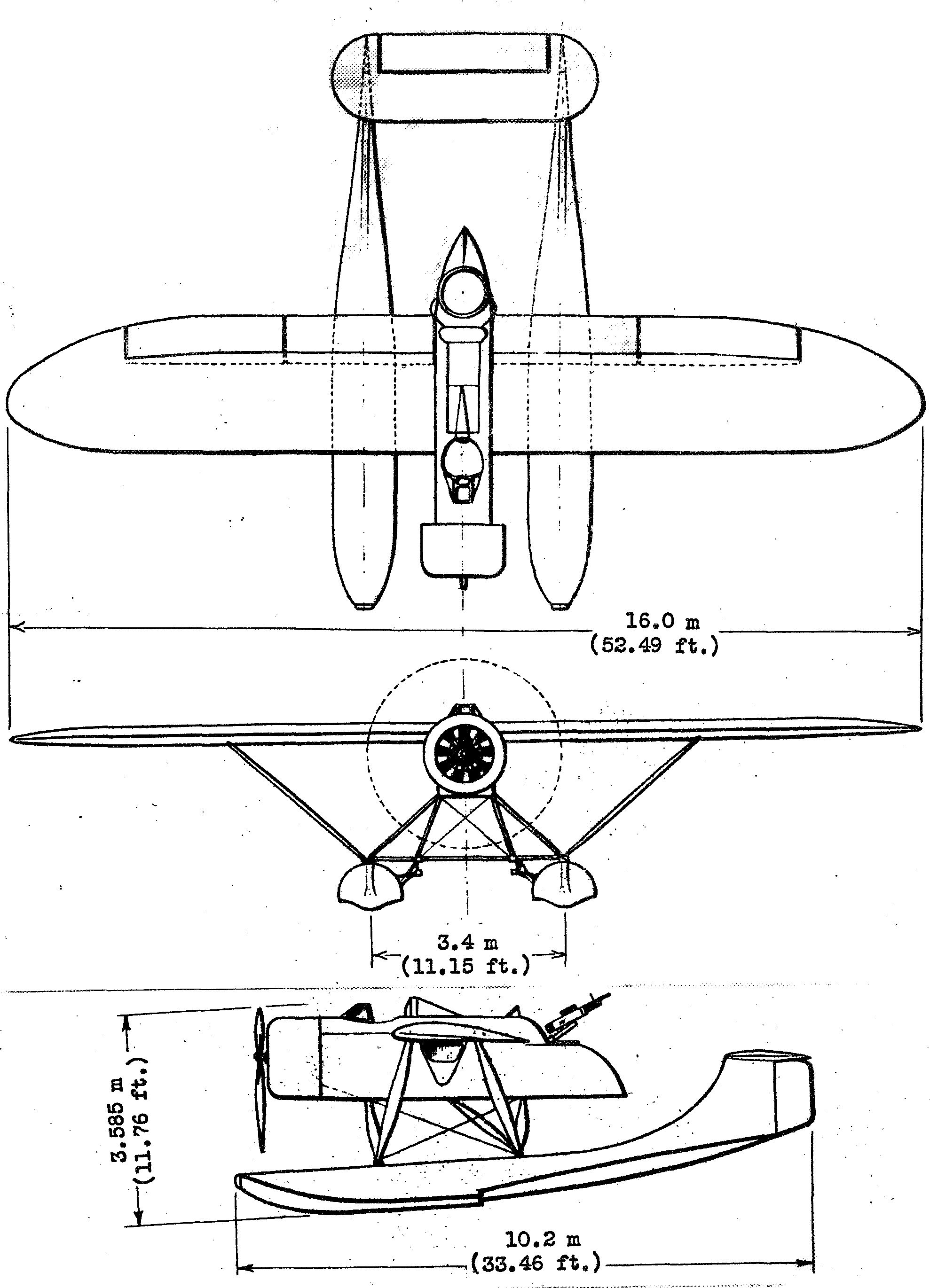 Levasseur P.L. 200 3-view drawing from NACA-SR-26